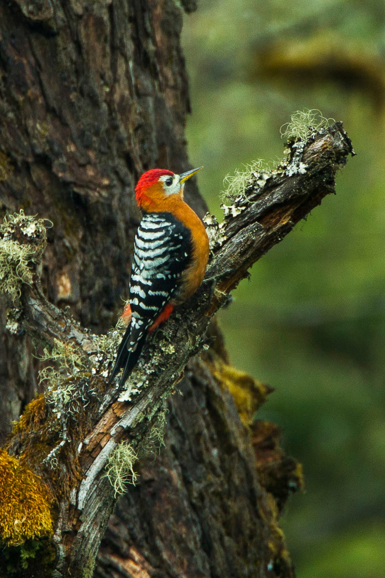 Rufous-bellied Woodpecker - Bhutan_S4E8773